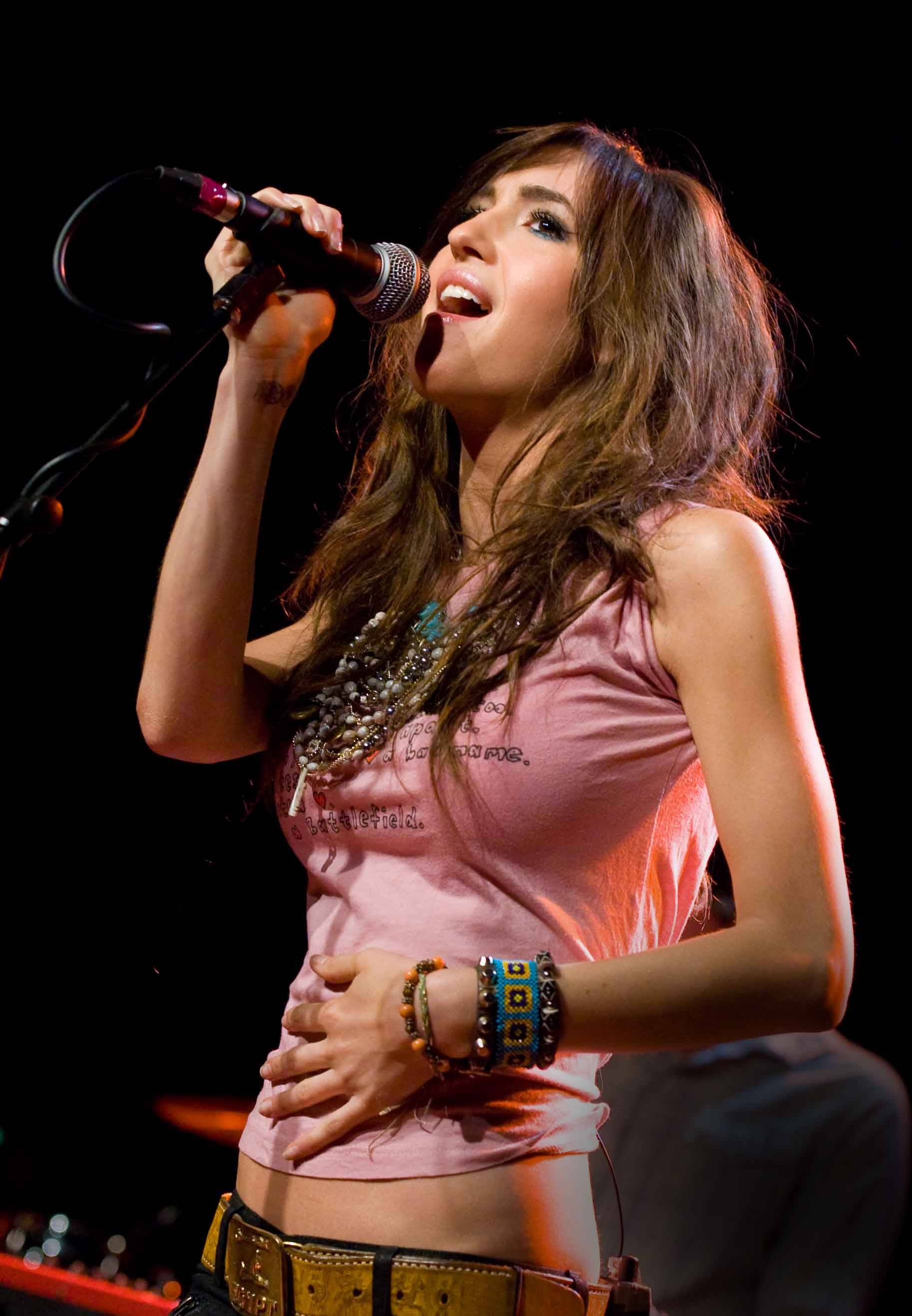 Kate Voegele performs at the Showbox At The Market on June 26, 2011 in Seattle, Washington